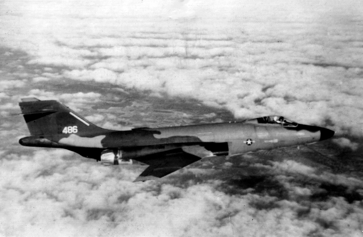 A U.S. Air Force McDonnell RF-101H Voodoo (s/n 54-1486) from the 165th Tactical Reconnaissance Squadron, 123rd Tactical Reconnaissance Group, Kentucky Air National Guard, in 1968-69. This squadron was one of 11 Air Guard units called to active duty in January 1968 following the "Pueblo-Crisis". Combined with the 154th (AR) and 192nd (NV) TRS to form the 123rd Tactical Reconnaissance Wing, each squadron worked on a rotation basis spending three months each at Itazuke Air Base (Japan), at Elmendorf Air Force Base, Alaska (USA), and patrolling around the entrance of the Panama Canal while stationed at Howard Air Force Base, Panama. At the end of a 90-day tour they rotated to their new assignment. All three squadrons were released from active duty by June 1969.